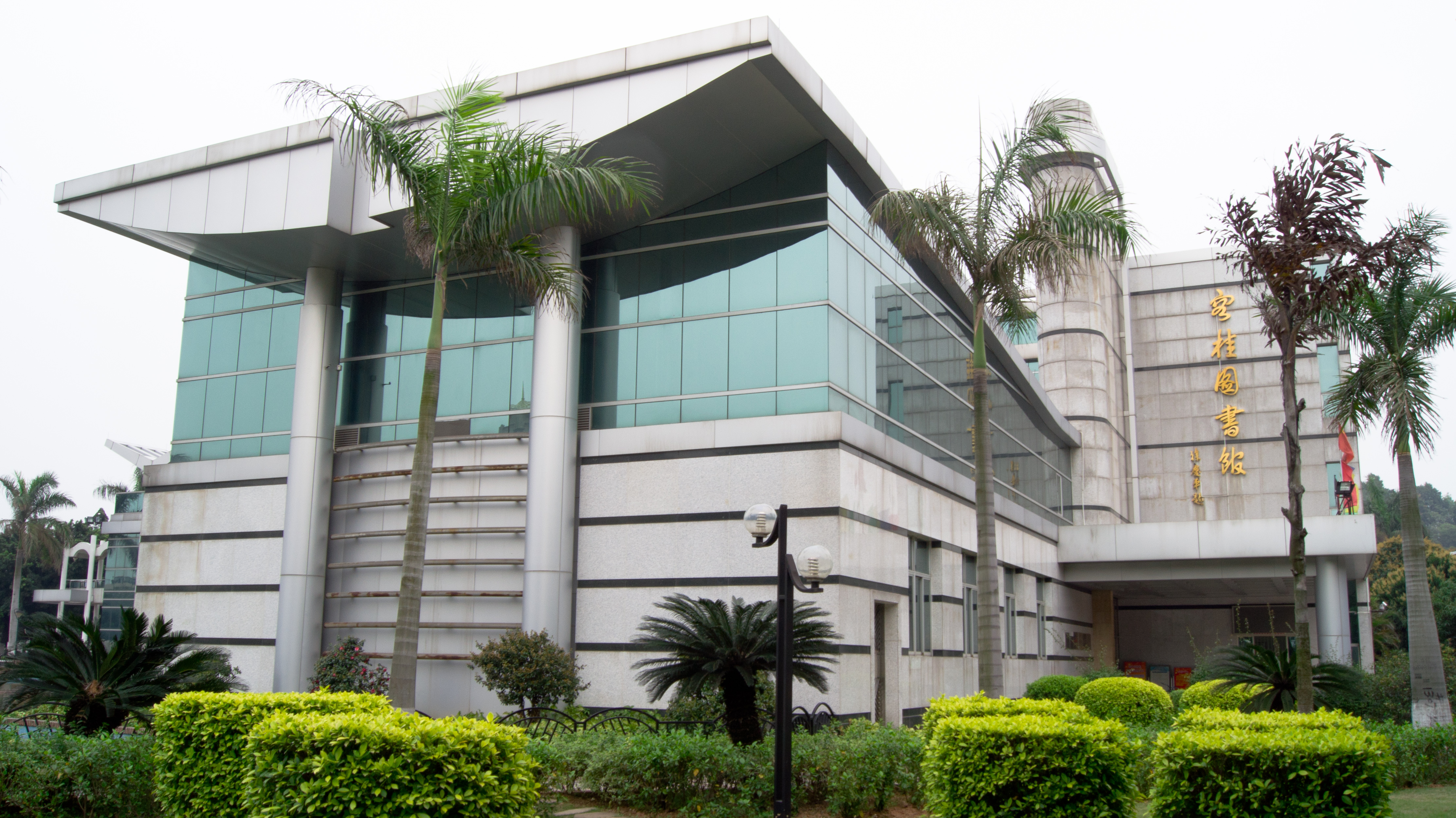 Ronggui Library